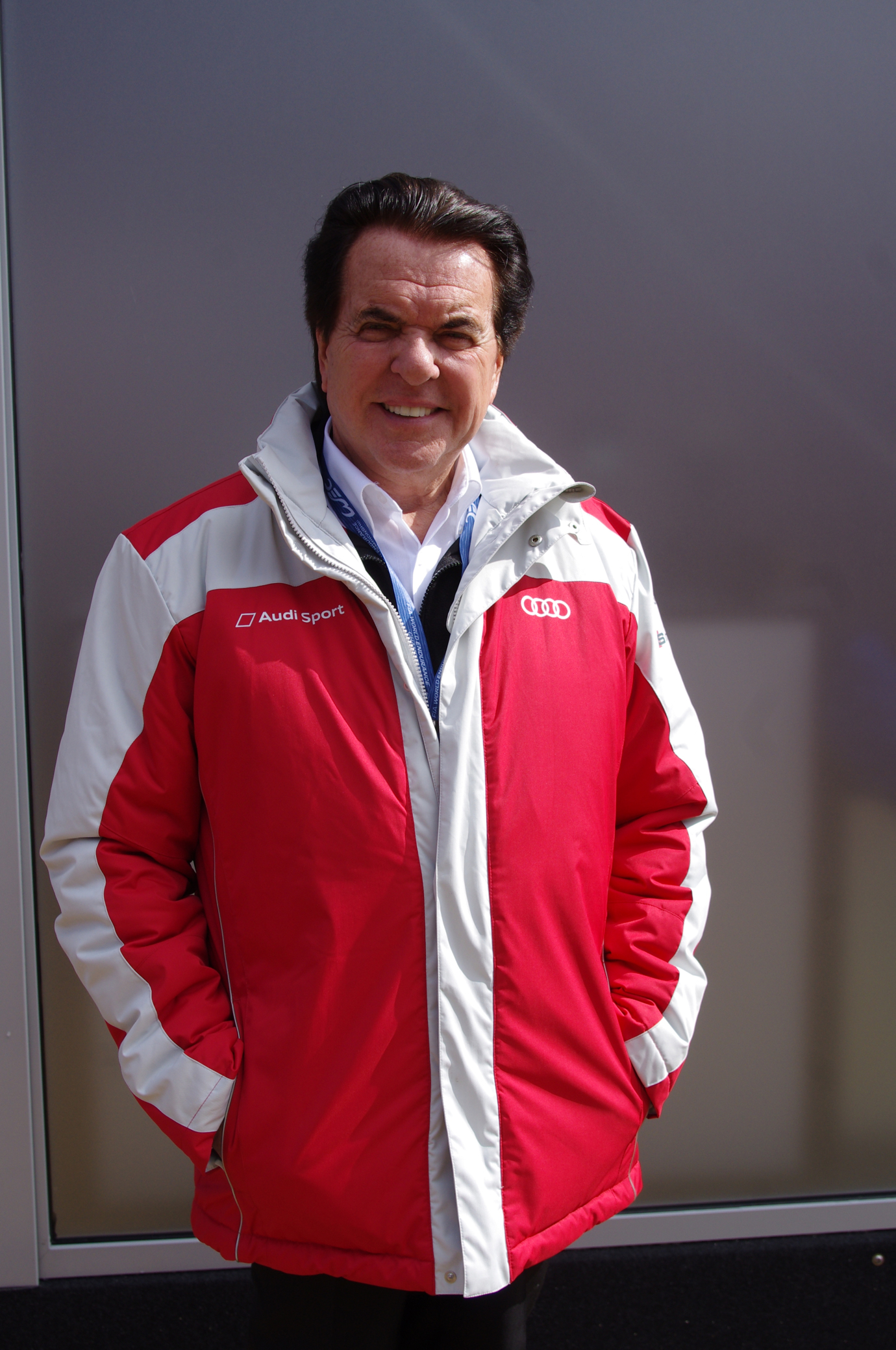 Silverstone 6 Hours 2013 FIA World Endurance Championship (WEC)